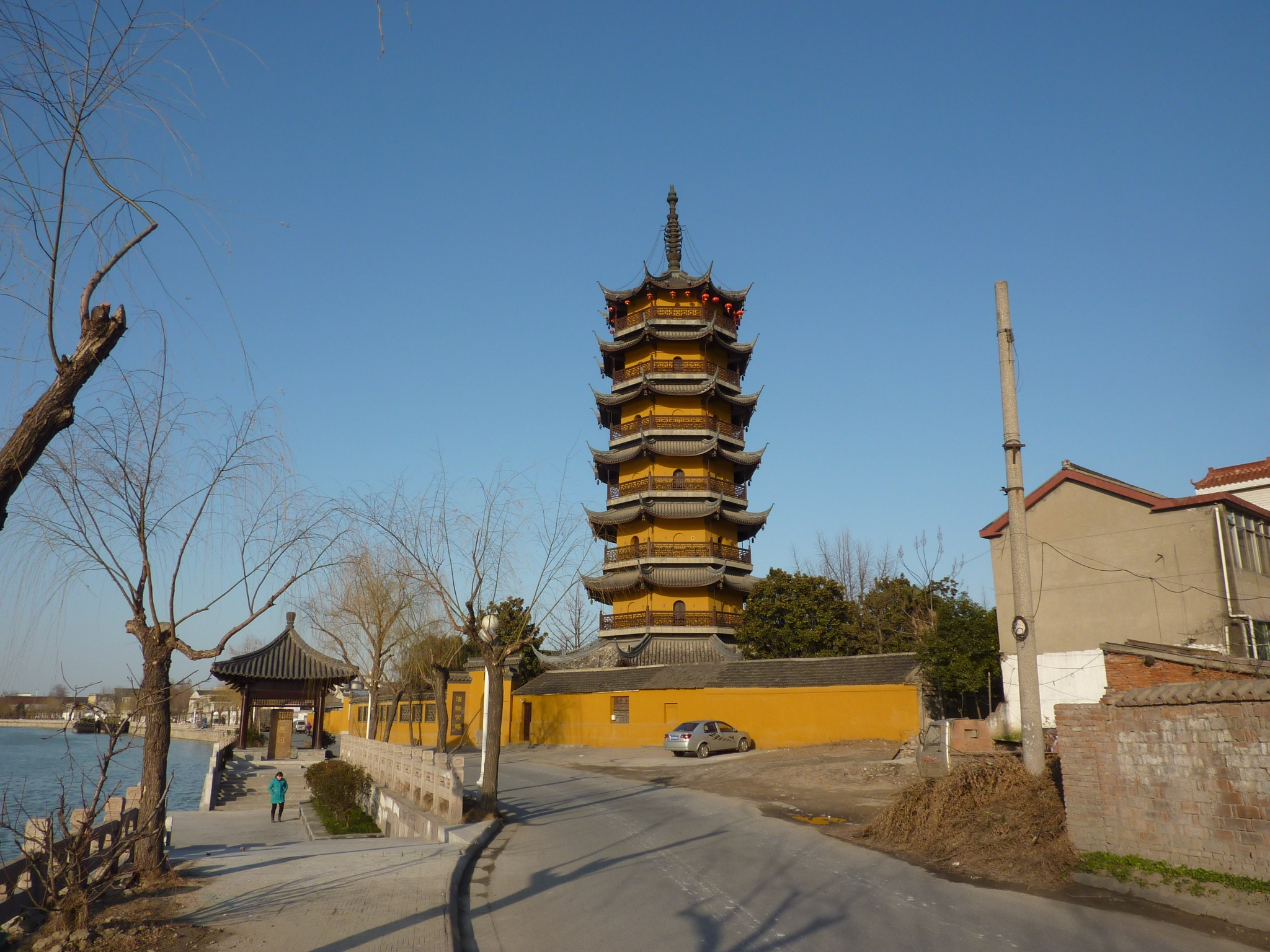 The Wenfeng Pagoda in Yangzhou, and the waterfront pavilion with the "Gu Yunhe" ("The Old Grand Canal") stele.